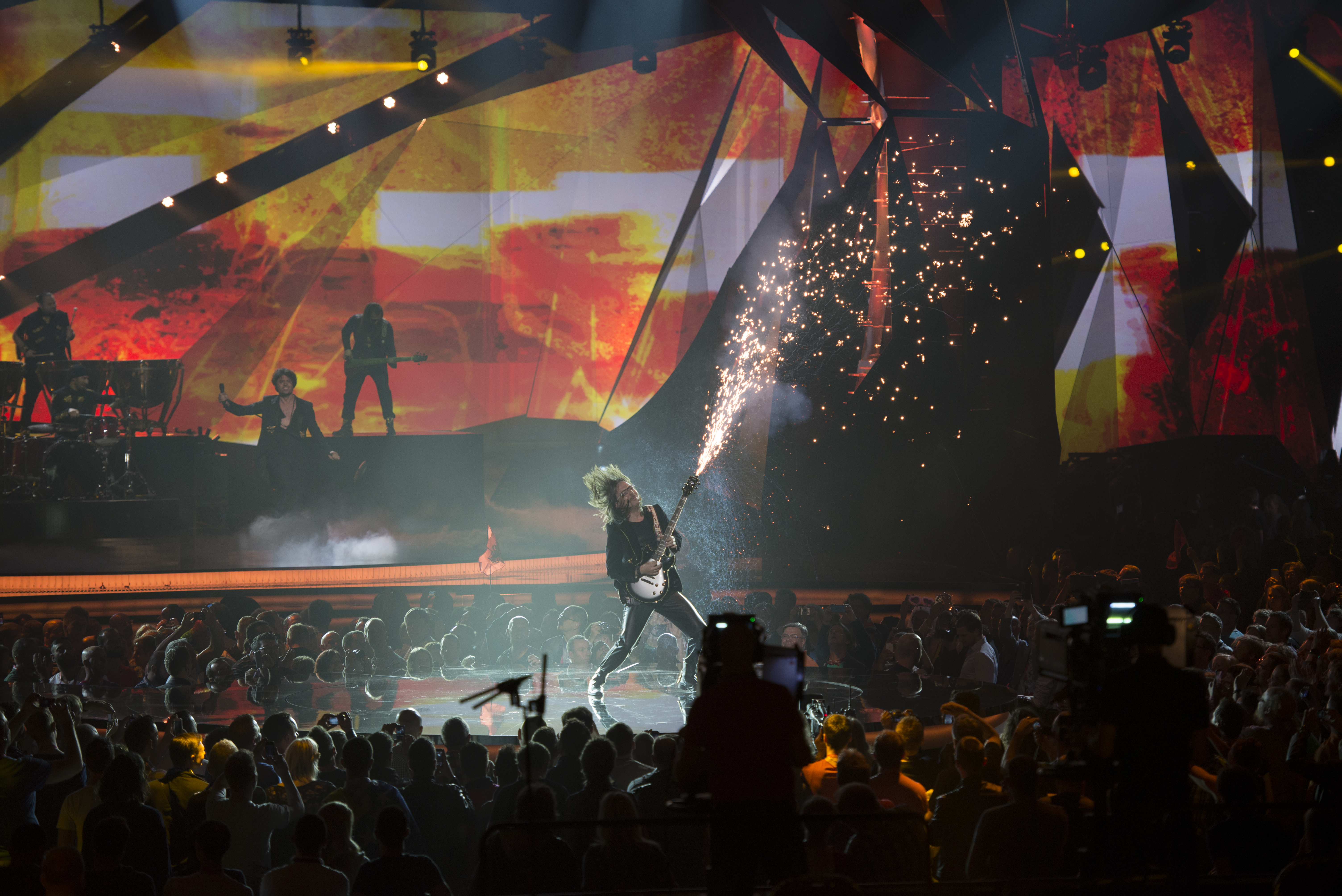 Adrian Lulgjuraj & Bledar Sejko from Albania performing their song in the second dress rehearsal for the second semi final of the Eurovision Song Contest 2013.